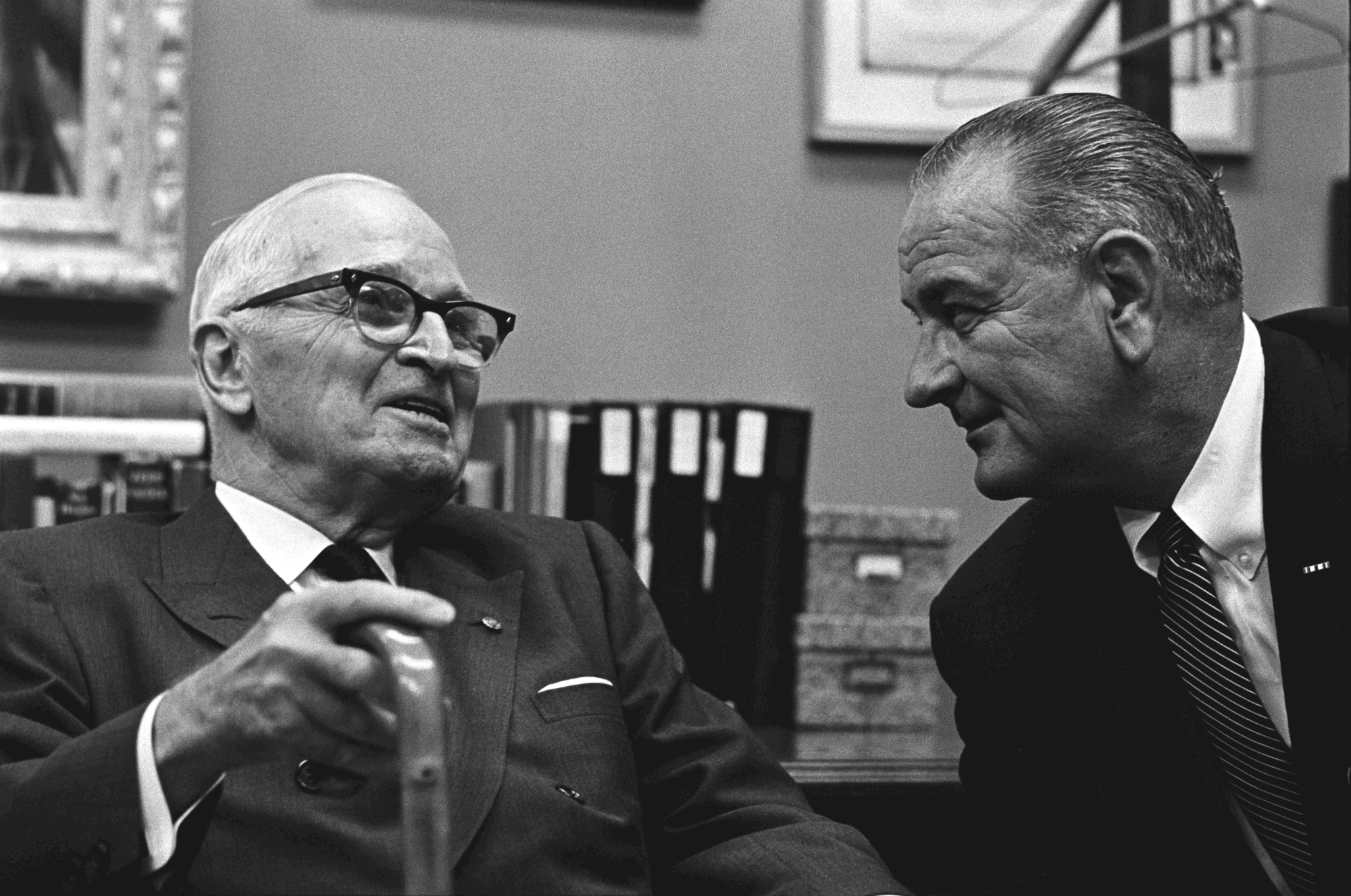 President Lyndon B. Johnson speaking with former President Harry S. Truman